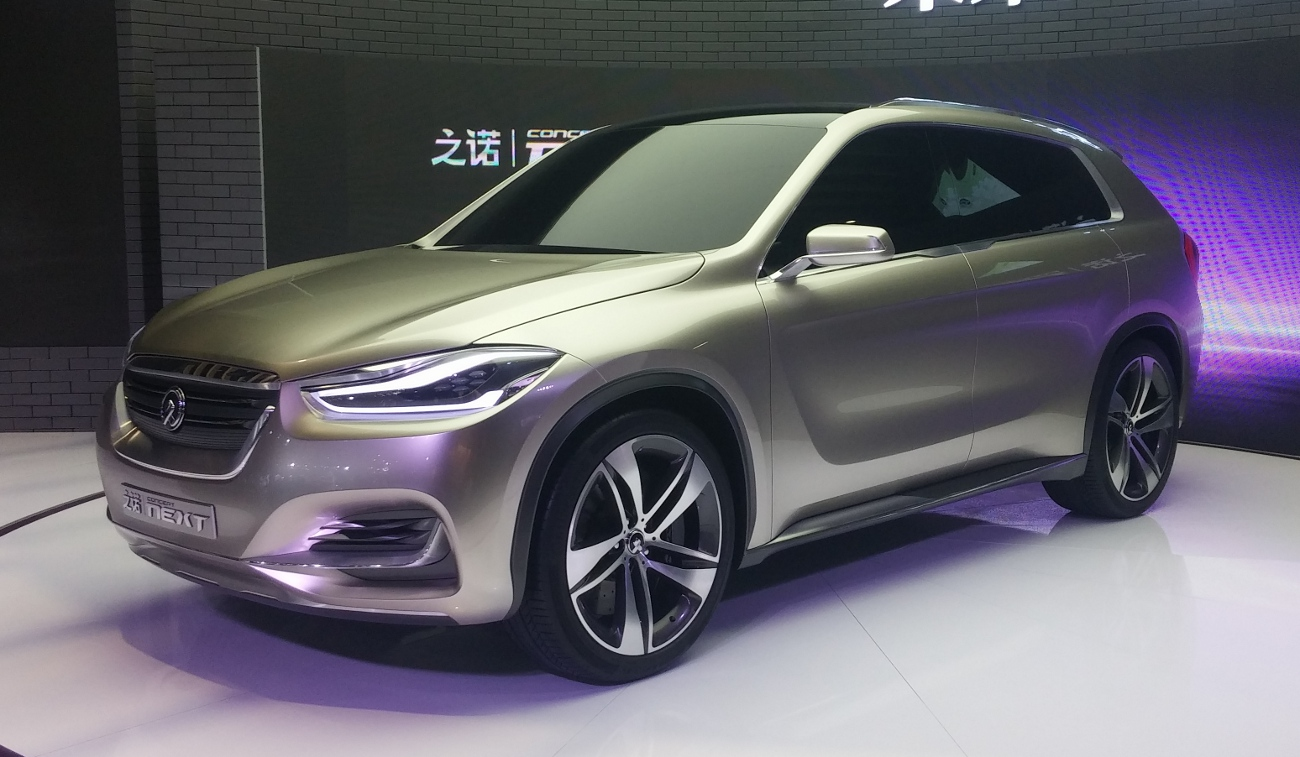 Zinoro Concept Next photographed at the Auto Shanghai 2015, Shanghai, China.